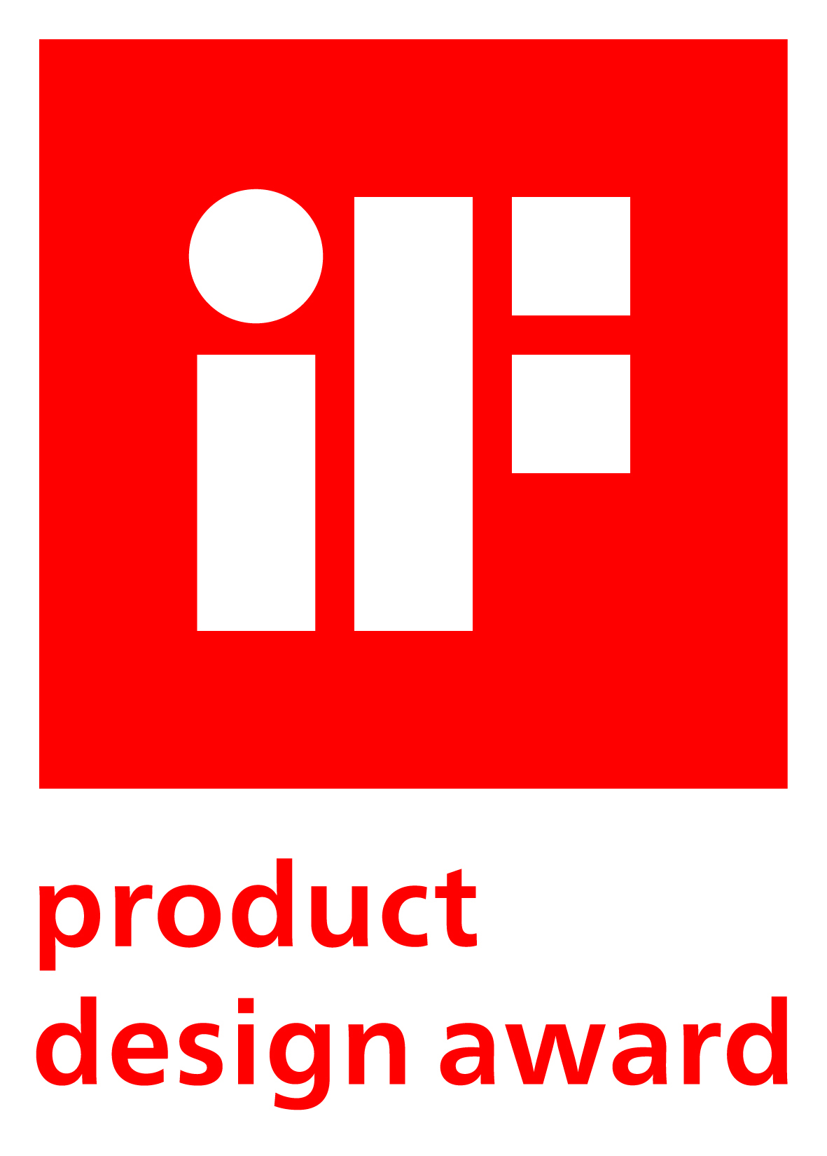 Since 1997, Samsonite won 12 IF Product Design Awards